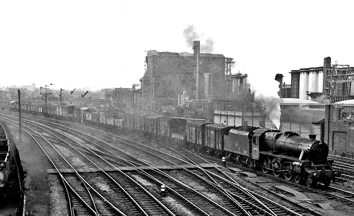 Up freight approaching Saltley station. View southward from Saltley Road (now Viaduct), towards Birmingham New Street and the South: ex-Midland Derby/Leicester etc. - Birmingham - Bristol main line. This was an immensely busy stretch of railway. Saltley station (closed 4/3/68) was behind the camera and a little further north were the great Washwood Heath Yards; ahead was Saltley Junction and Lawley Street Goods station, then Duddeston Road Junction, where the Camp Hill line from Kings Norton joined - used by all freight traffic from the South and from the GWR, avoiding New Street station. This Class D freight is headed by Stanier 5MT 4-6-0 No. 44814 (built 1944, withdrawn 9/67). Not visible over to the right was the River Rea, worming its way between all the industry.